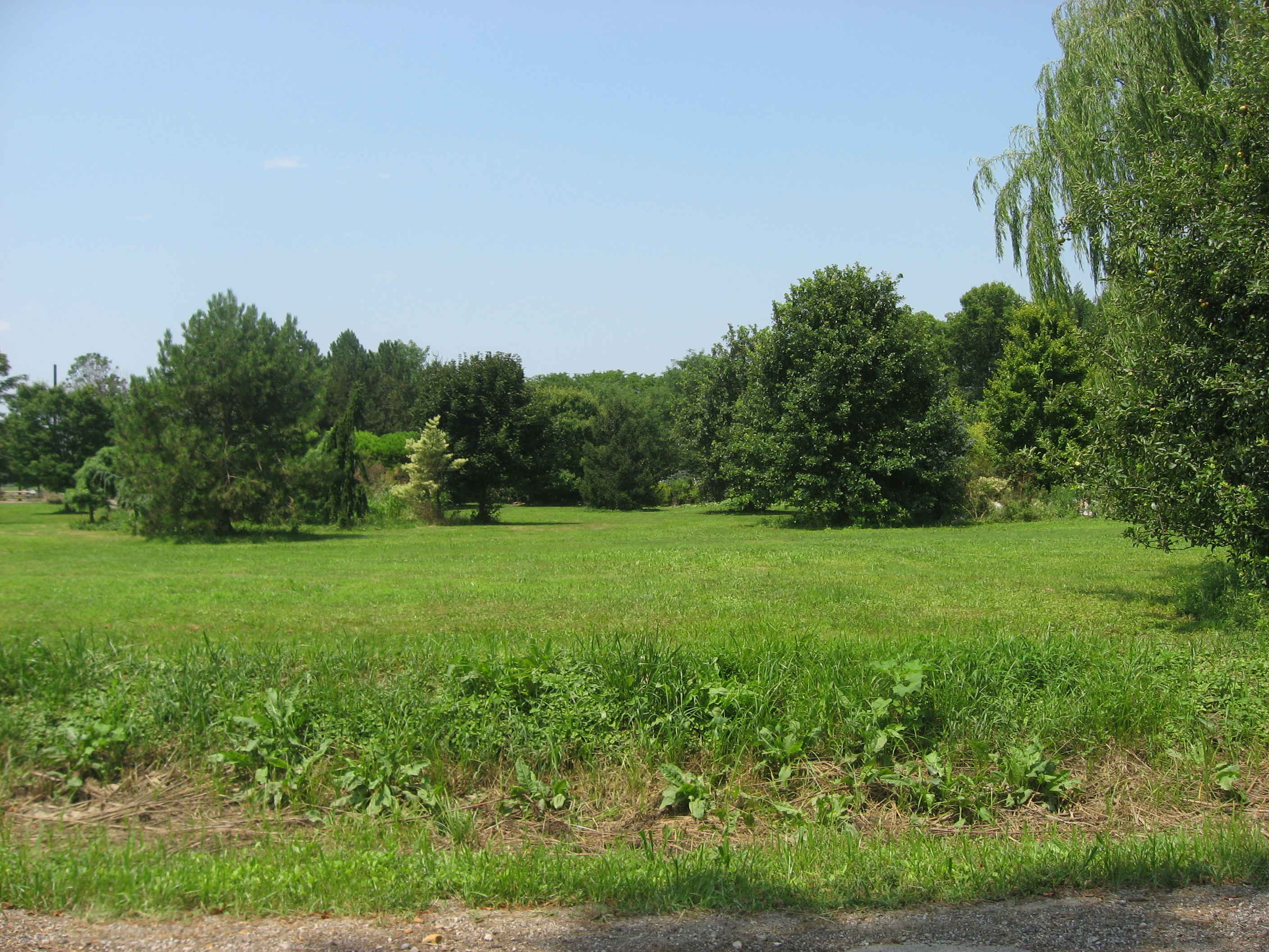 A lawn at the Turpin Farms, located at 3295 Turpin Lane west of Newtown in Anderson Township, Hamilton County, Ohio, United States. The farmyard is an important archaeological site known as the "Turpin Site" — several burial mounds built by the Fort Ancient culture once sat in the farmyard. It is listed on the National Register of Historic Places.